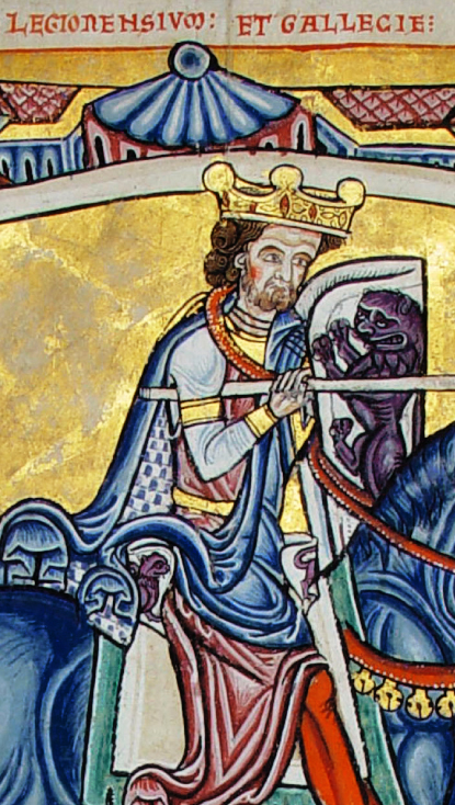 Detail of a medieval miniature which represents Afonso IX, king of León.